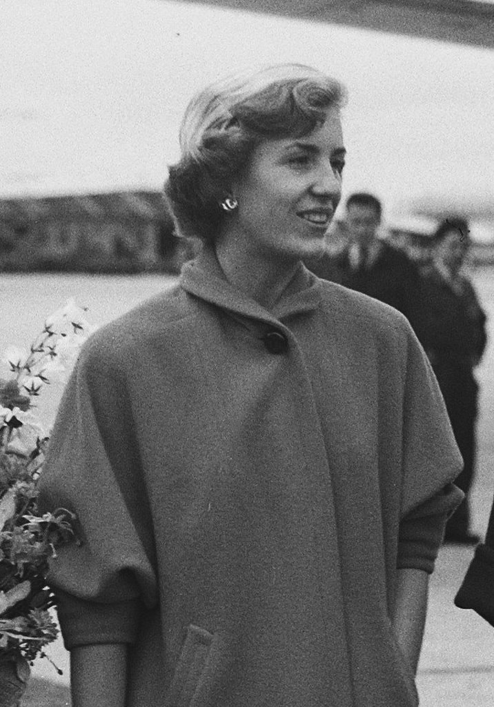 Diane Disney, at Schiphol Ariport in 1951